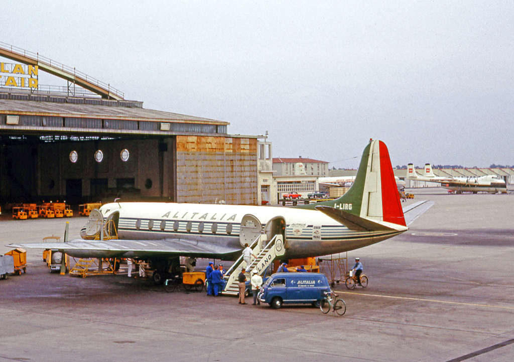 Vickers Viscount 798 of Alitalia at Milan (Linate) Airport in 1965